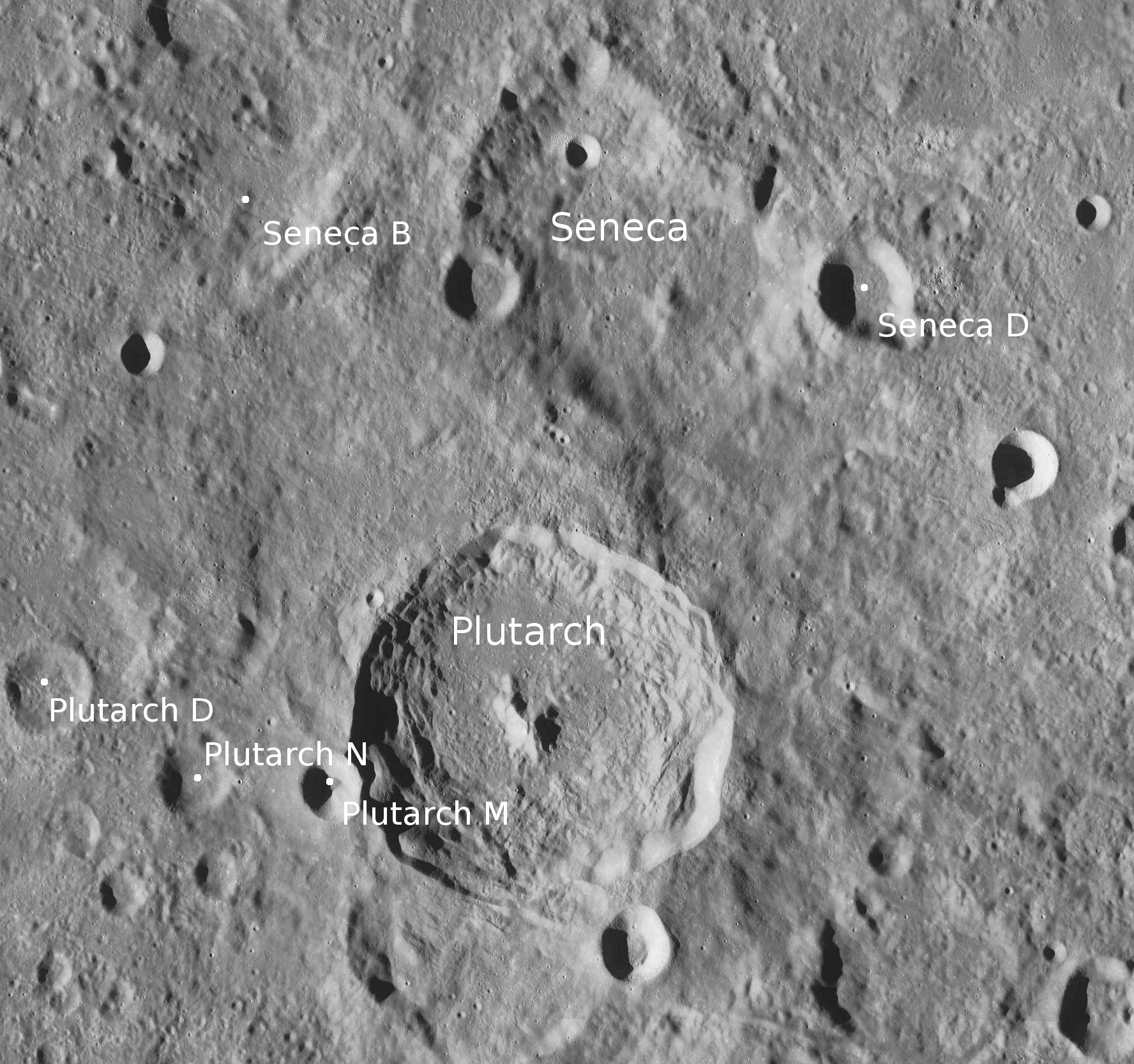 Craters Plutarch and Seneca (detail of LROC - WAC global moon mosaic)